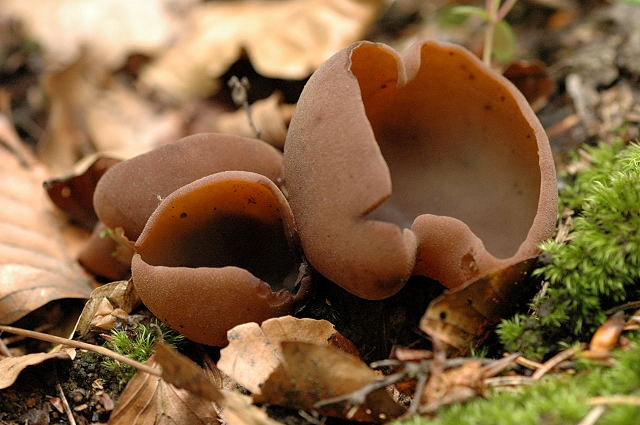 Peziza spec. from Commanster, Belgium. The determination of the species shown in this picture has been verified.